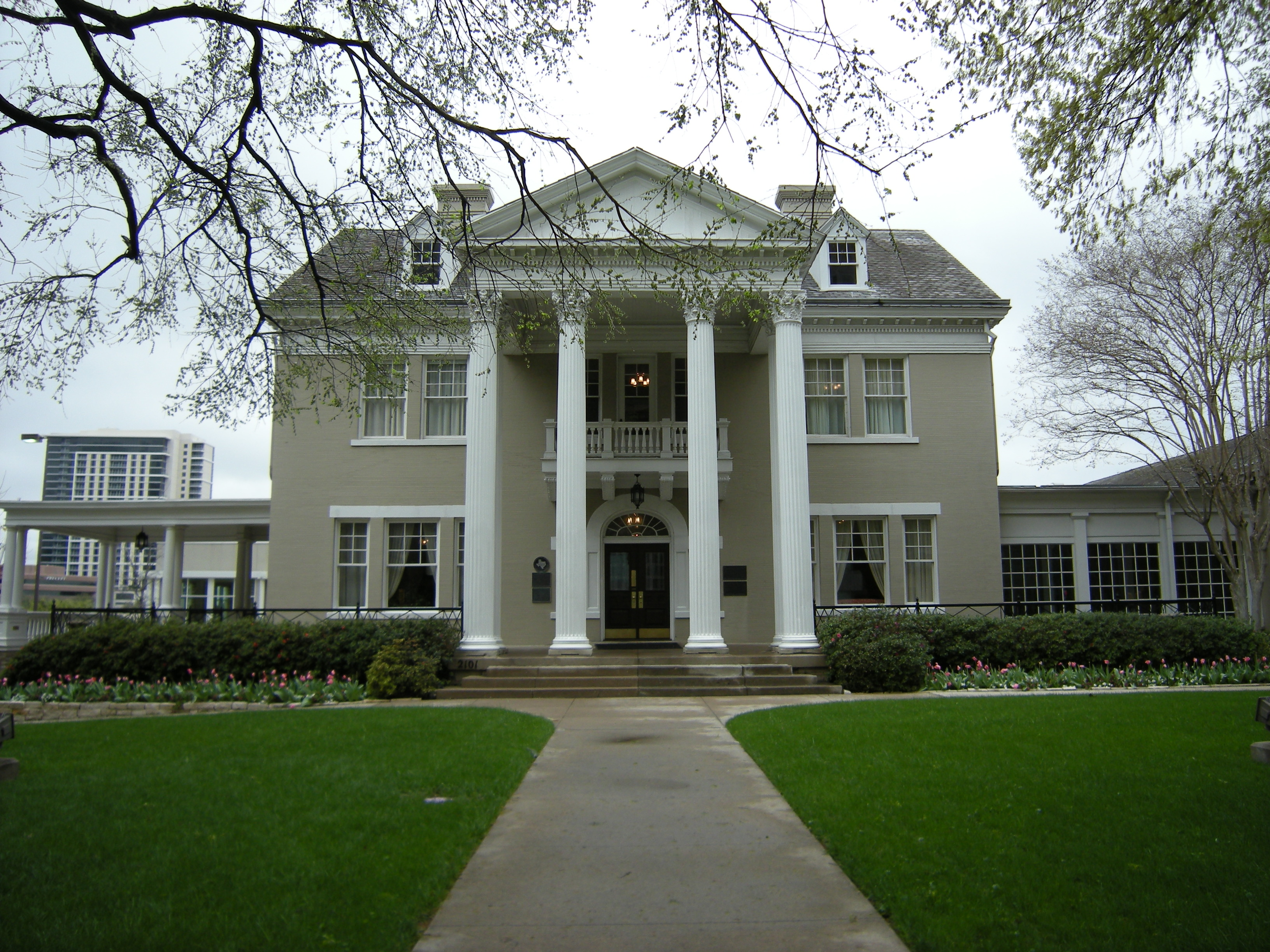 Alfred Horatio Belo House (A. H. Belo House), Arts District, Dallas, Texas. Originally home of newspaper publisher A. H. Belo; added onto as a funeral home; now headquarters of the Dallas Bar Association and Dallas Bar Foundation.